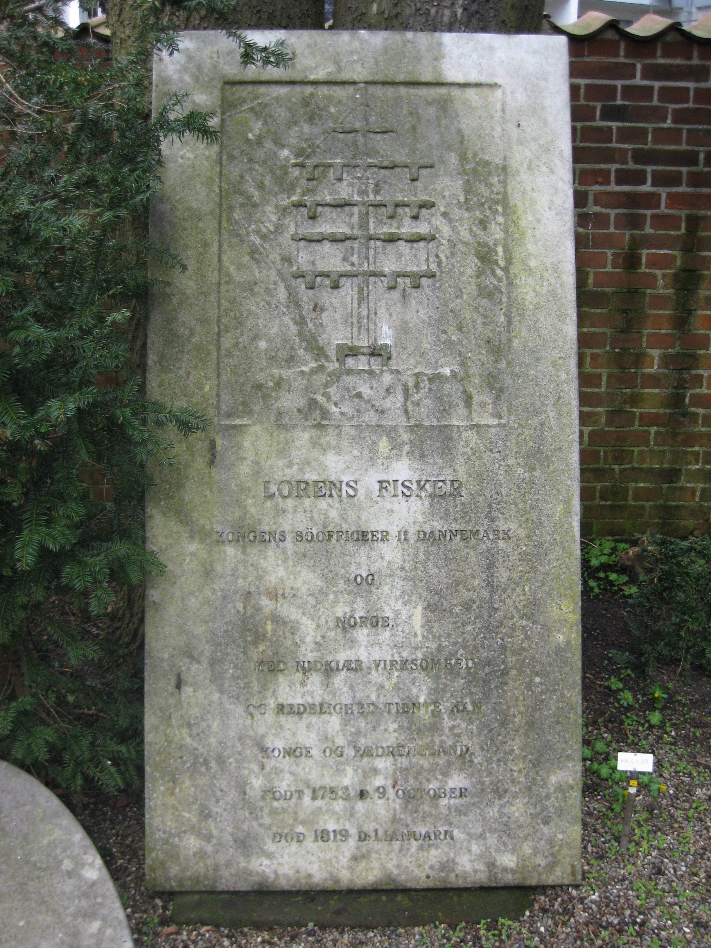 Gravestone of Admiral Lorentz Fisker in Holmens Churchyard, Copenhagen. First name can be spelt Lorens.